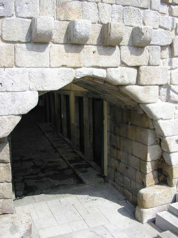 Template:En!Postigo do Carvao (Porto). the 18 doors and hatches built in the medieval walls of Porto, Portugal, this hatch -- Portigo do Carvão -- is the only one that's been kept till today.